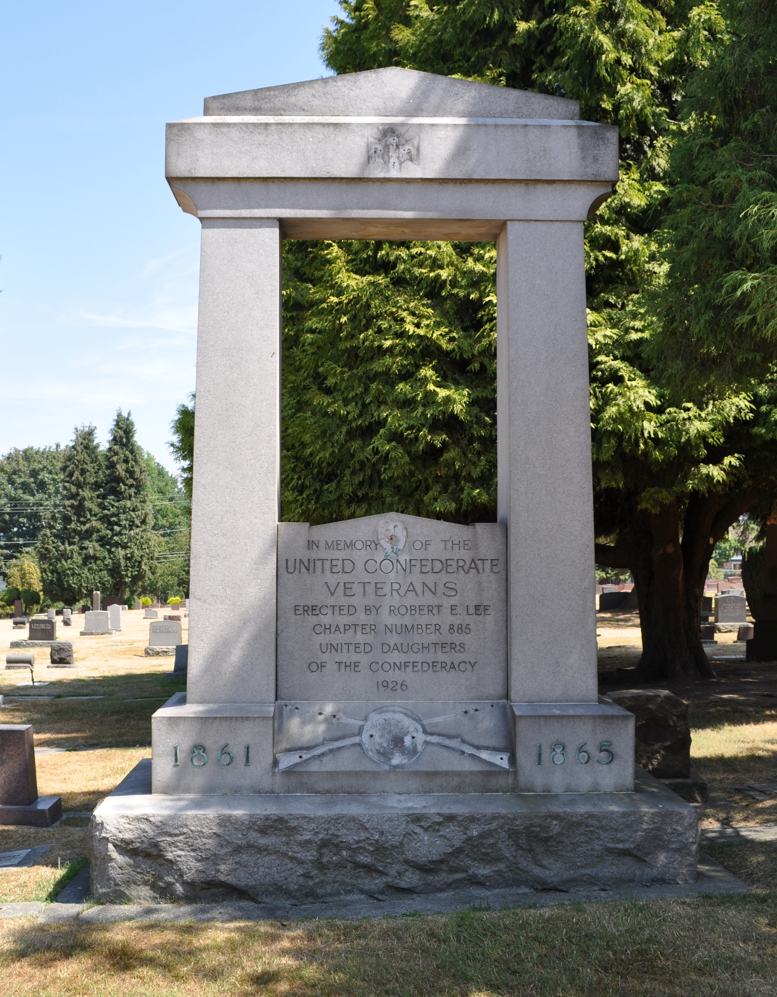 United Confederate Veterans memorial, Lake View Cemetery, Capitol Hill, Seattle, Washington, USA. Shortly after this picture was taken, the missing metal pieces were restored.